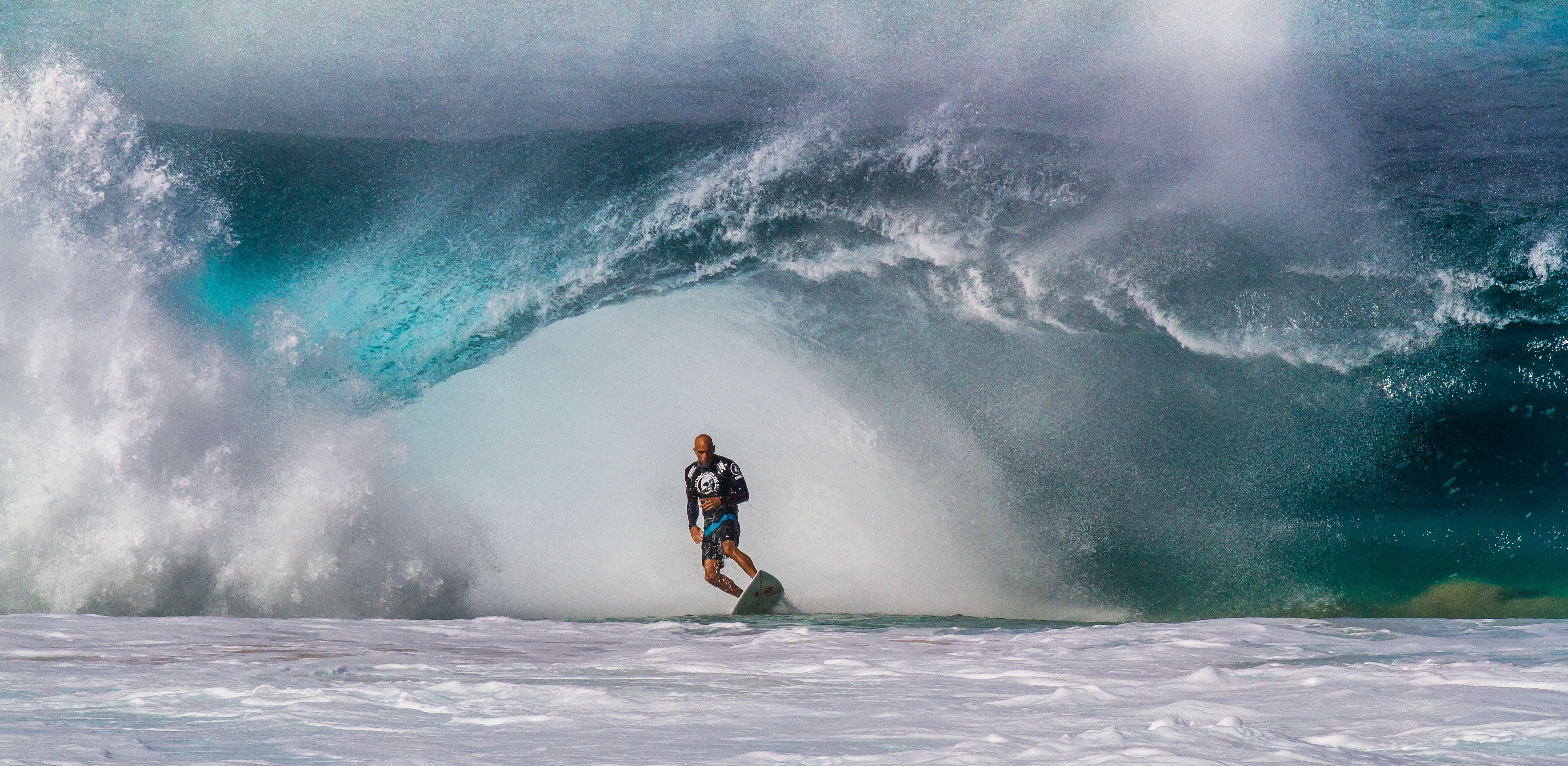 Kelly Slater, the greatest surfer in the world, escapes the jaws of one of the most dangerous waves in the world, Hawaii’s Banzai Pipiline, North Shore of Oahu.